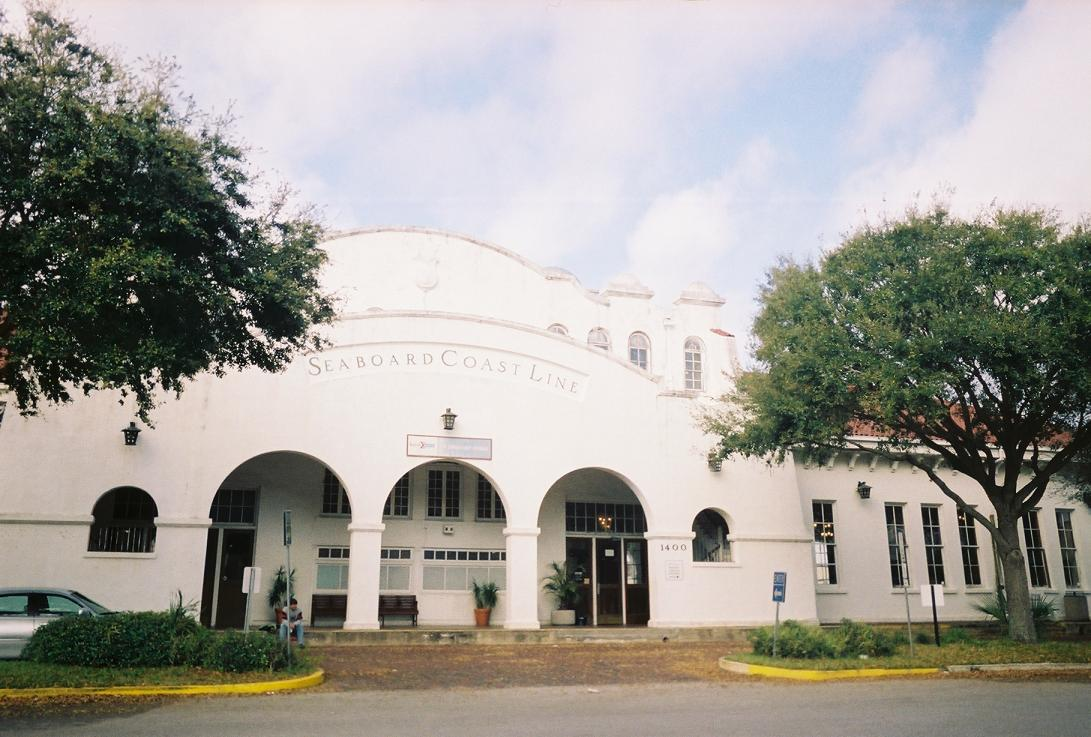 Image of the front gate of the Orlando Amtrak Station, which was originally an Atlantic Coast Line Railroad station, then a Seaboard Coast Line Railroad station. Replaces an image which was temporarily borrowed from a website the author had been under the mistaken impression was on the verge of death, and then deleted.